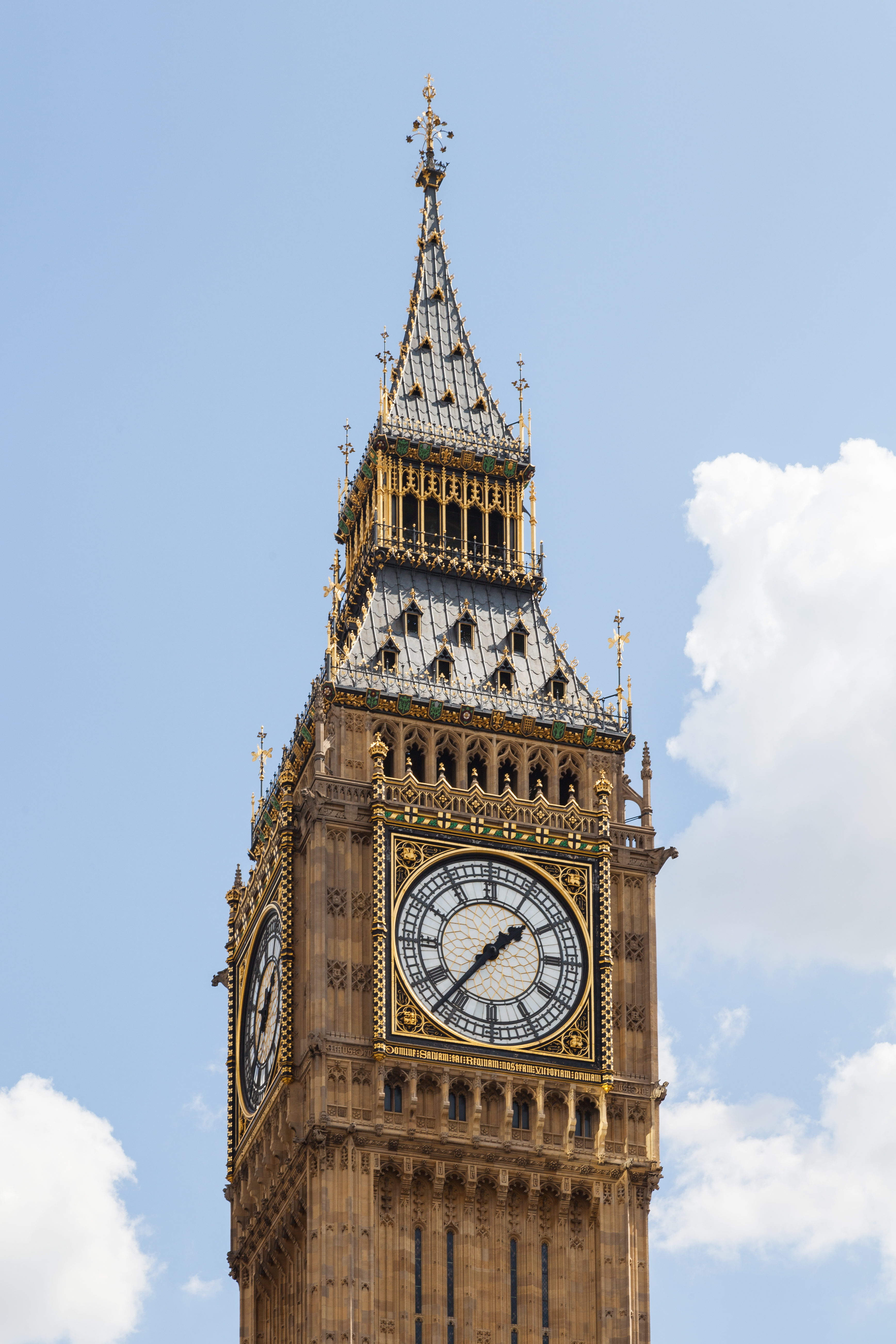 Big Ben, London, England